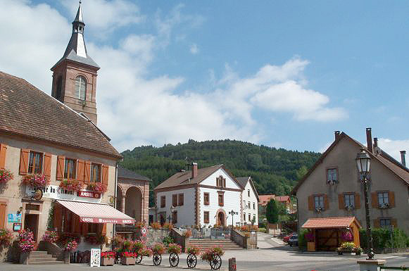 Main square of Ranrupt